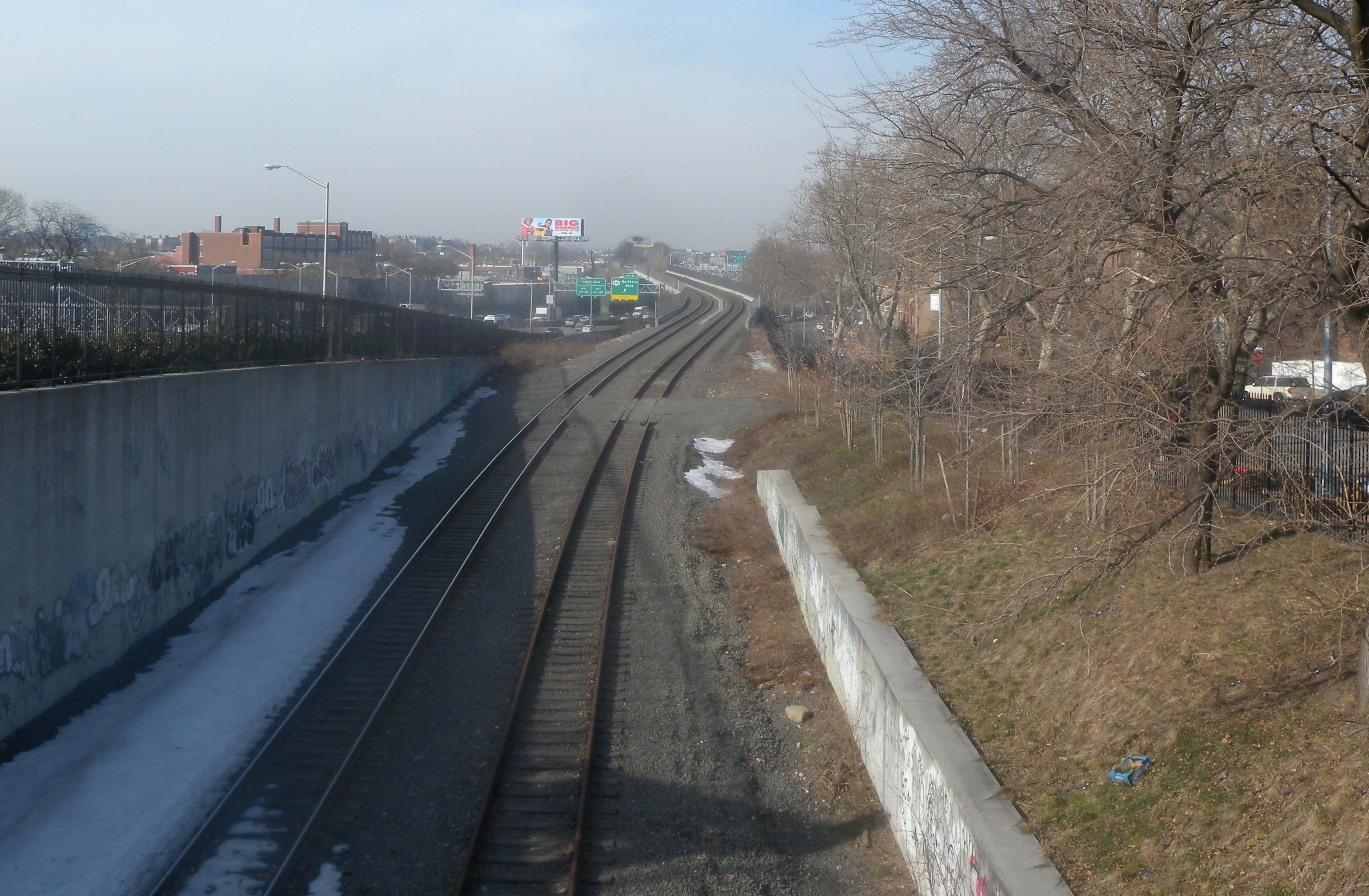 New York Connecting Railroad, Queens, New York City. Looking north on a sunny afternoon as dual track line climbs from under Broadway and 37th Avenue to elevated section over BQE. ZIP 11377